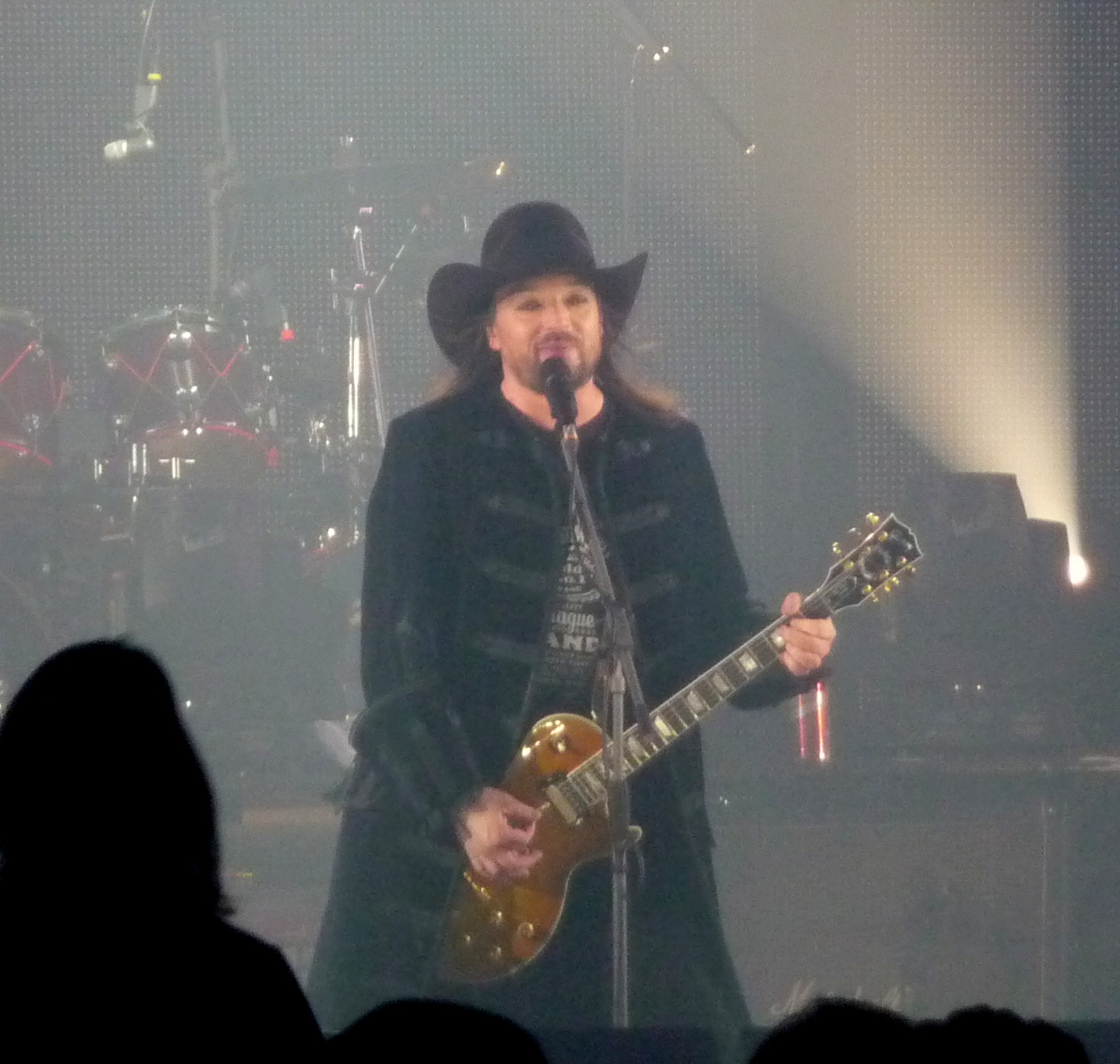 Concert of Czech rock musical band Wanastowi Vjecy within the concert tour 2012 "Letíme na Venuši" (We're flying on Venus) in City gym Vodova in Brno